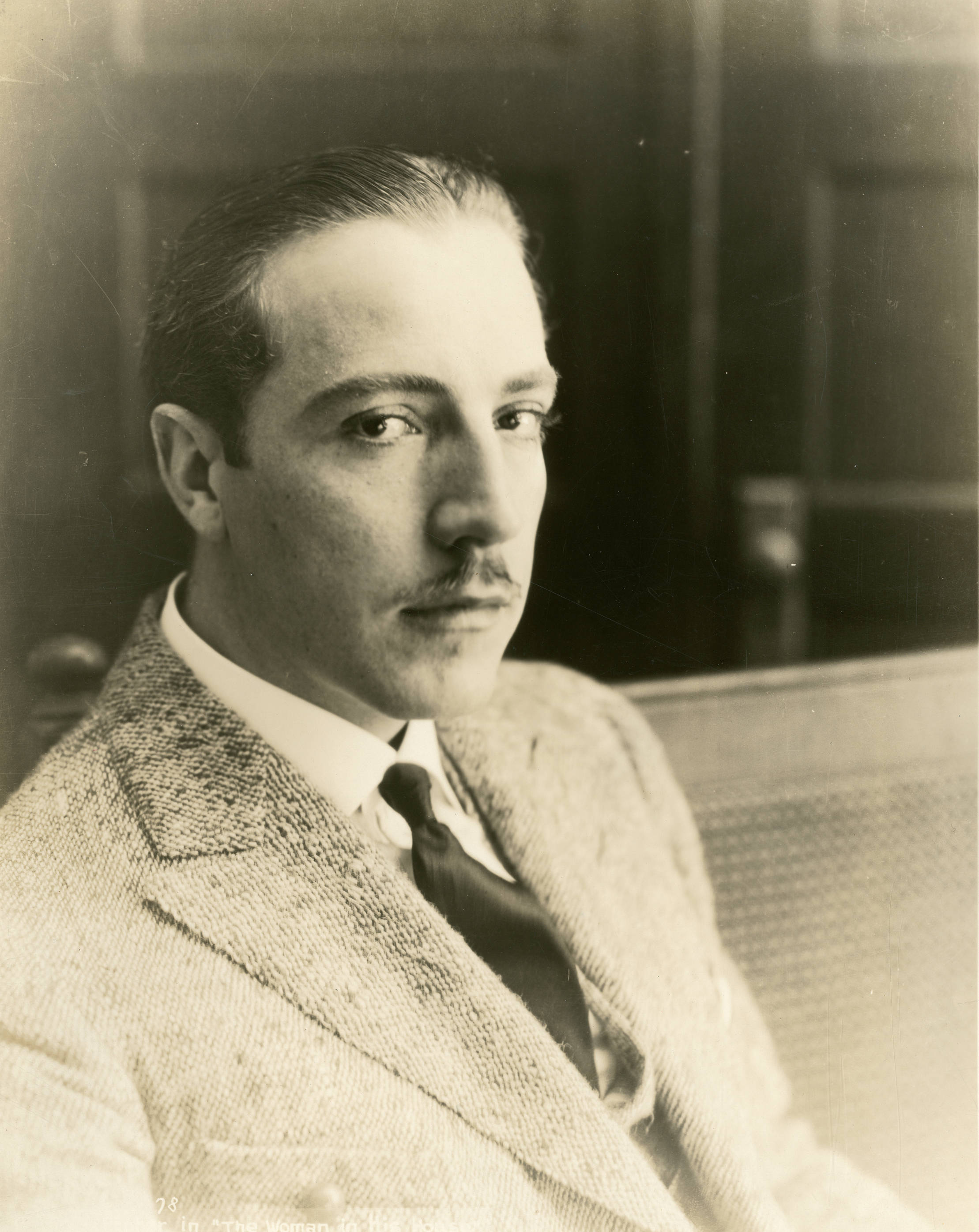 Silent film actor George Fisher. Subjects: actors